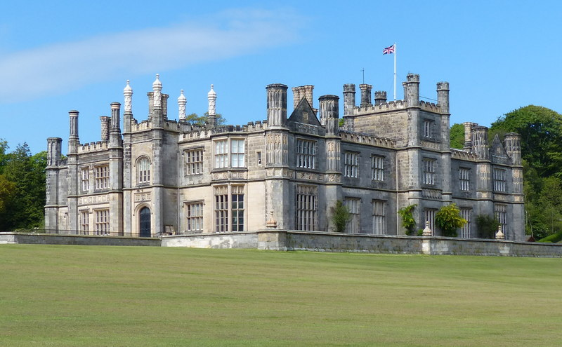 Dalmeny House is a Tudor Gothic Revival mansion overlooking the Firth of Forth. It was designed by William Wilkins, and completed in 1817. It is the home of the Earl and Countess of Rosebery.